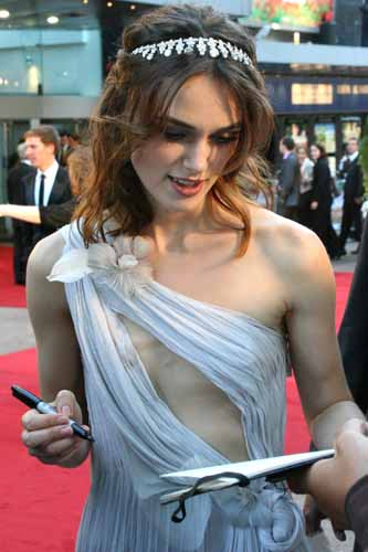 Keira attends the premiere of Atonement